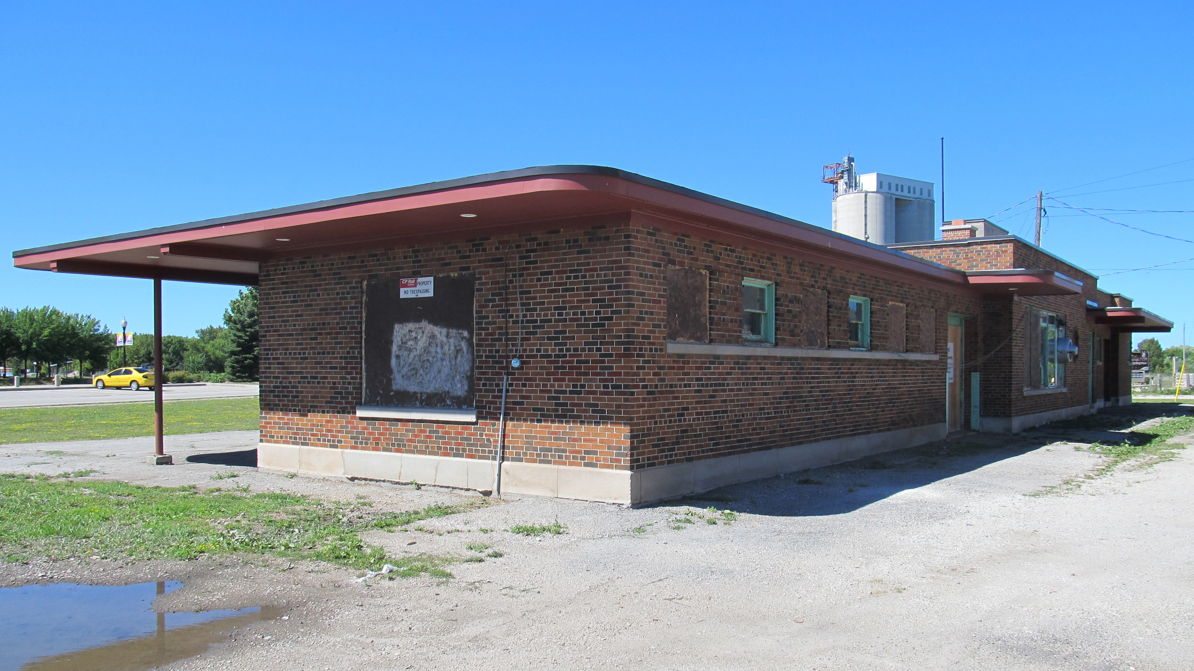 Former CPR railway station in Owen Sound, Ontario.